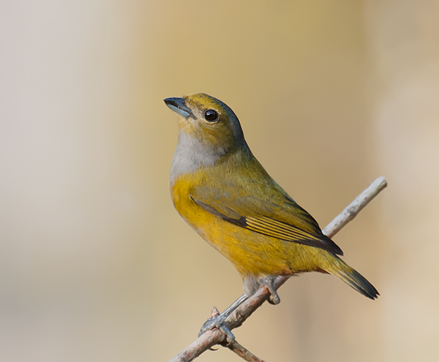 A female Chestnut-bellied Euphonia in Registro, São Paulo, Brazil.